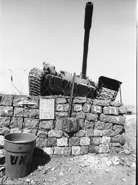 Destroyed Syrian tank on the Golan Heights during the Arab-Israeli War. From the booklet "President Nixon and the Role of Intelligence in the 1973 Arab-Israeli War." For more information, visit